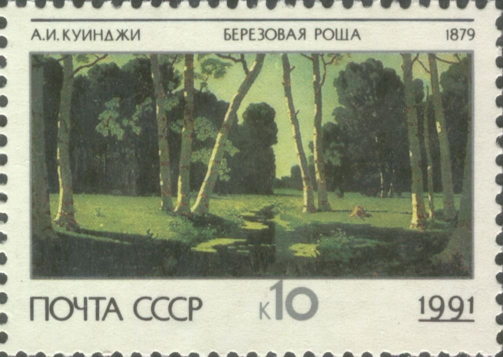 Stamp of USSR: Birch Grove (1879, Tretyakov Gallery) by A. I. Kuindzhi (1841-1910). Issue: Russian landscape paintings